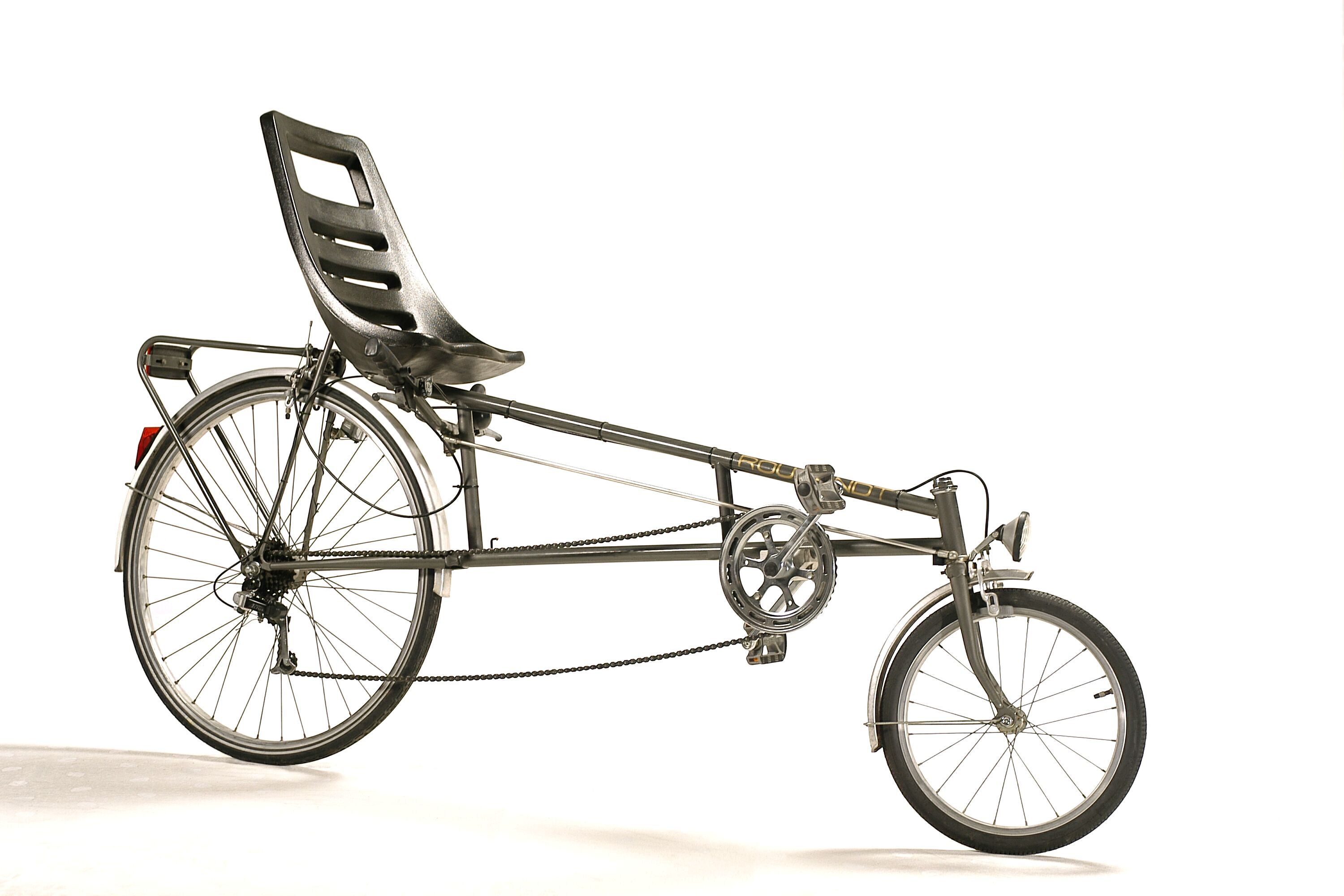 The Roulandt, the first commercially produced recumbent bicycle in the Netherlands.